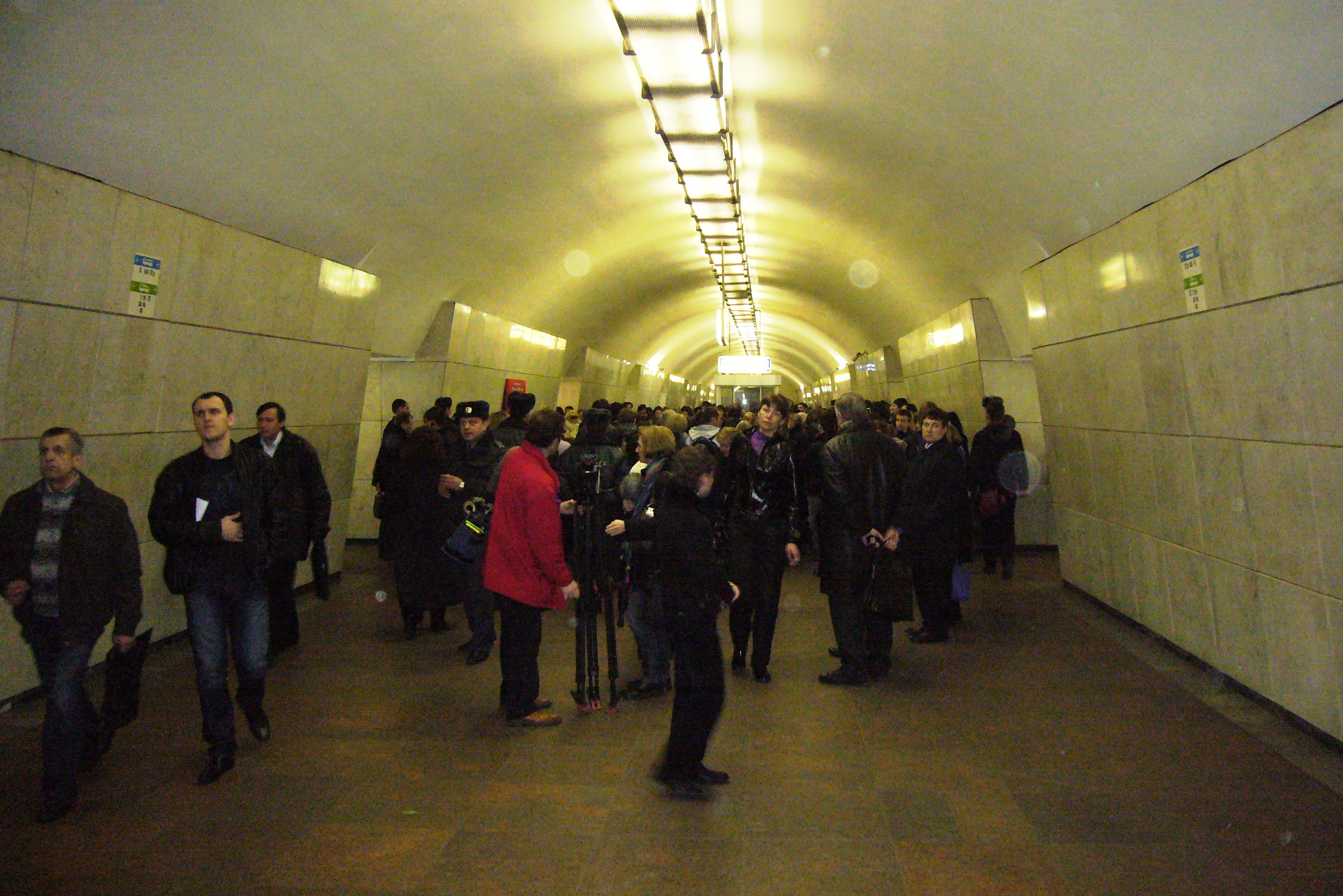 People mourning the victims and bringing flowers and candles at the scene of the terrorist attack in the Lubyanka metro station in Moscow the next day after the explosion, March 30, 2010.